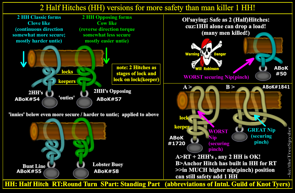 1 Half Hitch(HH) can slip as it's 'Nip' (securing pinch) is in the worst place, many men killed! Give 2nd HH as a keeper to primary HH lock for safety! Applied as regular 2 HH's, opposing, Bunt Line, Lobster Buoy and Round Turn. comparing to single HH and much better Nip Anchor Hitch.